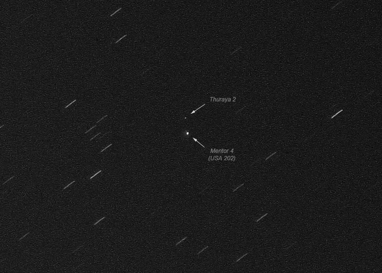 Geostationary satellites Thuraya 2 and USA 202 (Mentor 4) on 8 Dec 2010. Photograph by Marco Langbroek, the Netherlands (Canon EOS 450D + Carl Zeiss Jena Sonnar MC 2.8/180mm @ 800 ISO, 10s)